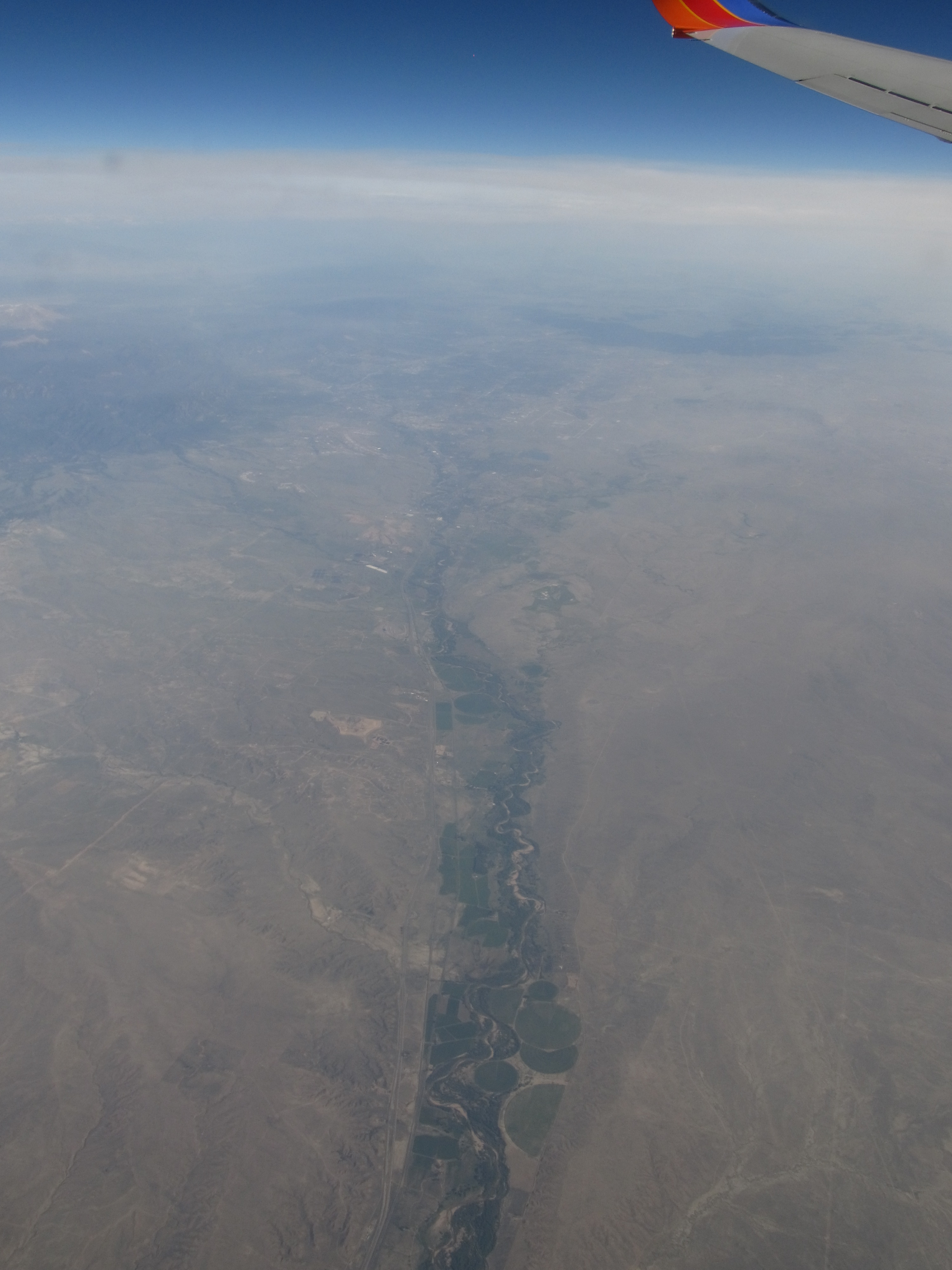 Fountain Creek is a 74.5-mile-long (119.9 km) stream in El Paso and Pueblo counties, in Colorado in the United States. From its source near the city of Woodland Park north of Pikes Peak, the creek flows southeast through the communities of Green Mountain Falls and Chipita Park to the town of Cascade. It continues southeast through a narrow, winding, steep-sided canyon, approximately 3 miles (5 km) long. The canyon is traversed by U.S. Route 24, and was once traversed by the Colorado Midland Railway. Locals confusingly refer to it as "Ute Pass", or just "the pass"; but the actual Ute Pass is some 15 miles (24 km) to the west, along US 24. After exiting the canyon, Fountain Creek flows through Manitou Springs and into Colorado Springs, where it picks up Monument Creek west of downtown Colorado Springs, and Sand Creek in the southern part of the city. It then flows south, paralleled by Interstate 25, through the eponymous Fountain, Colorado and crosses into Pueblo County, before finally reaching Pueblo where it joins the Arkansas River.